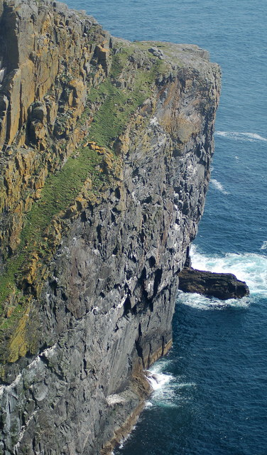 Barra Head Cliffs, Outer Hebrides, Scotland